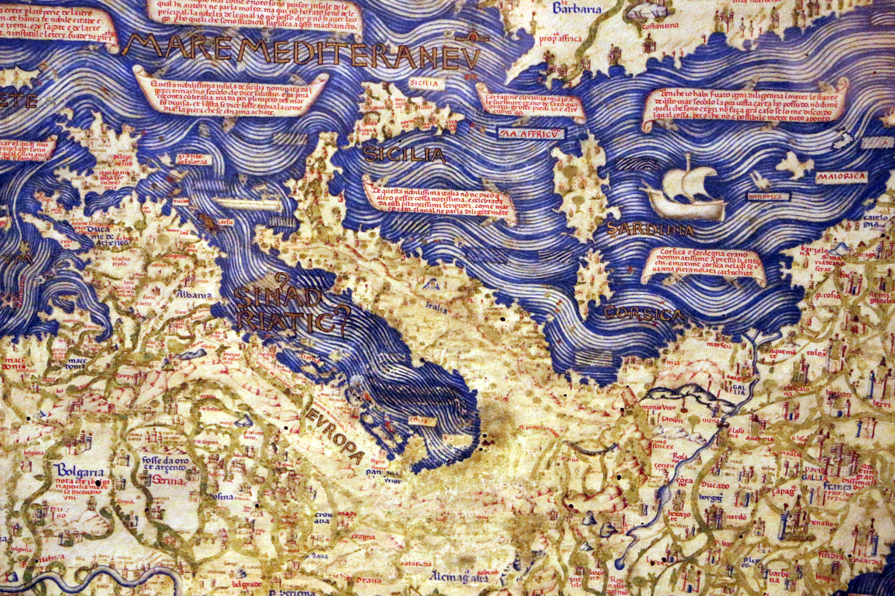 Biblioteca Nazionale Marciana (Venice)